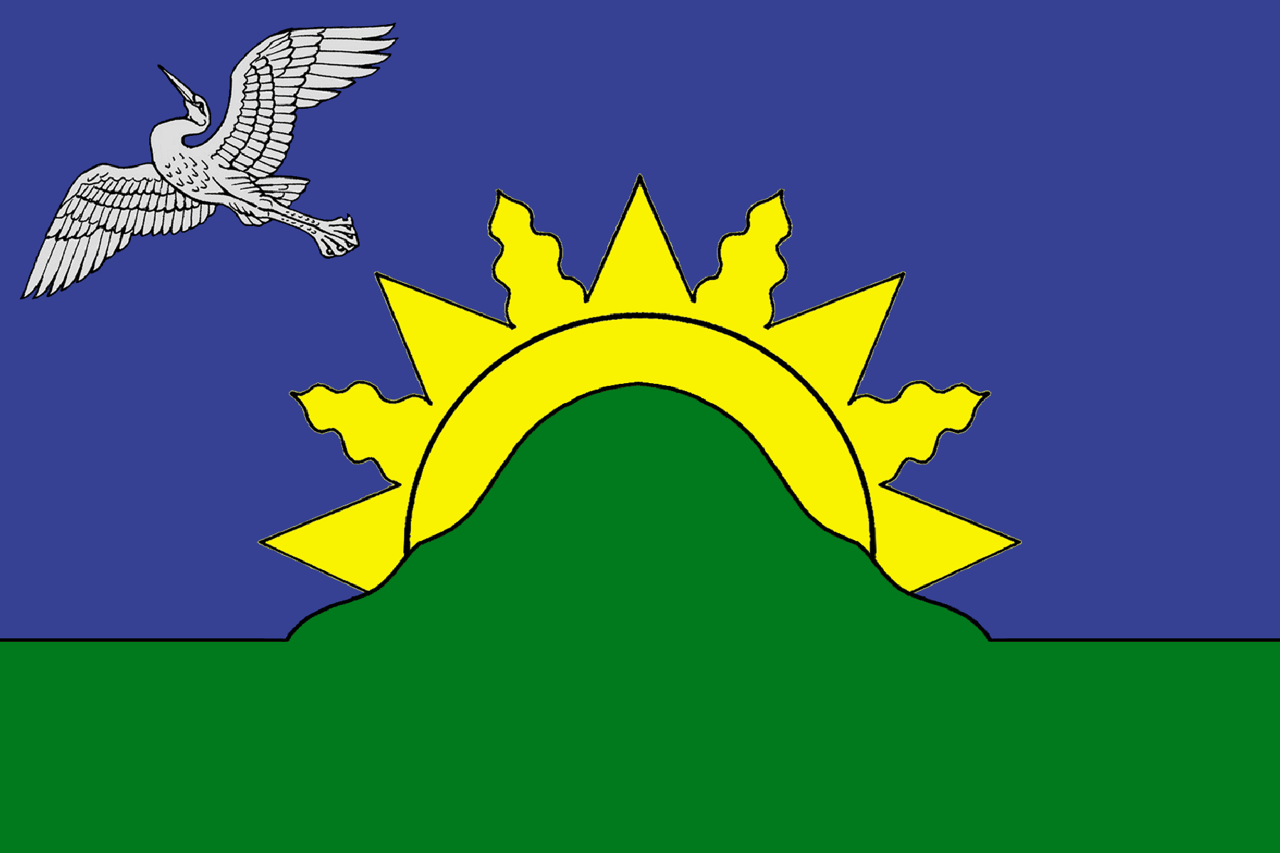 Flag of Batetsky rayon, Novogord Region, Russia